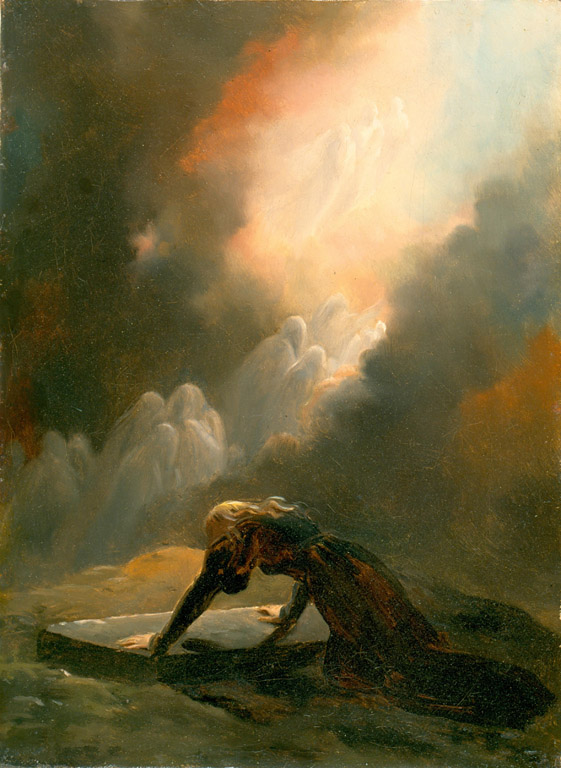 Bradamante at Merlin's Tomb by Alexandre-Evariste Fragonard, oil on canvas, ca. 1820, High Museum of Art